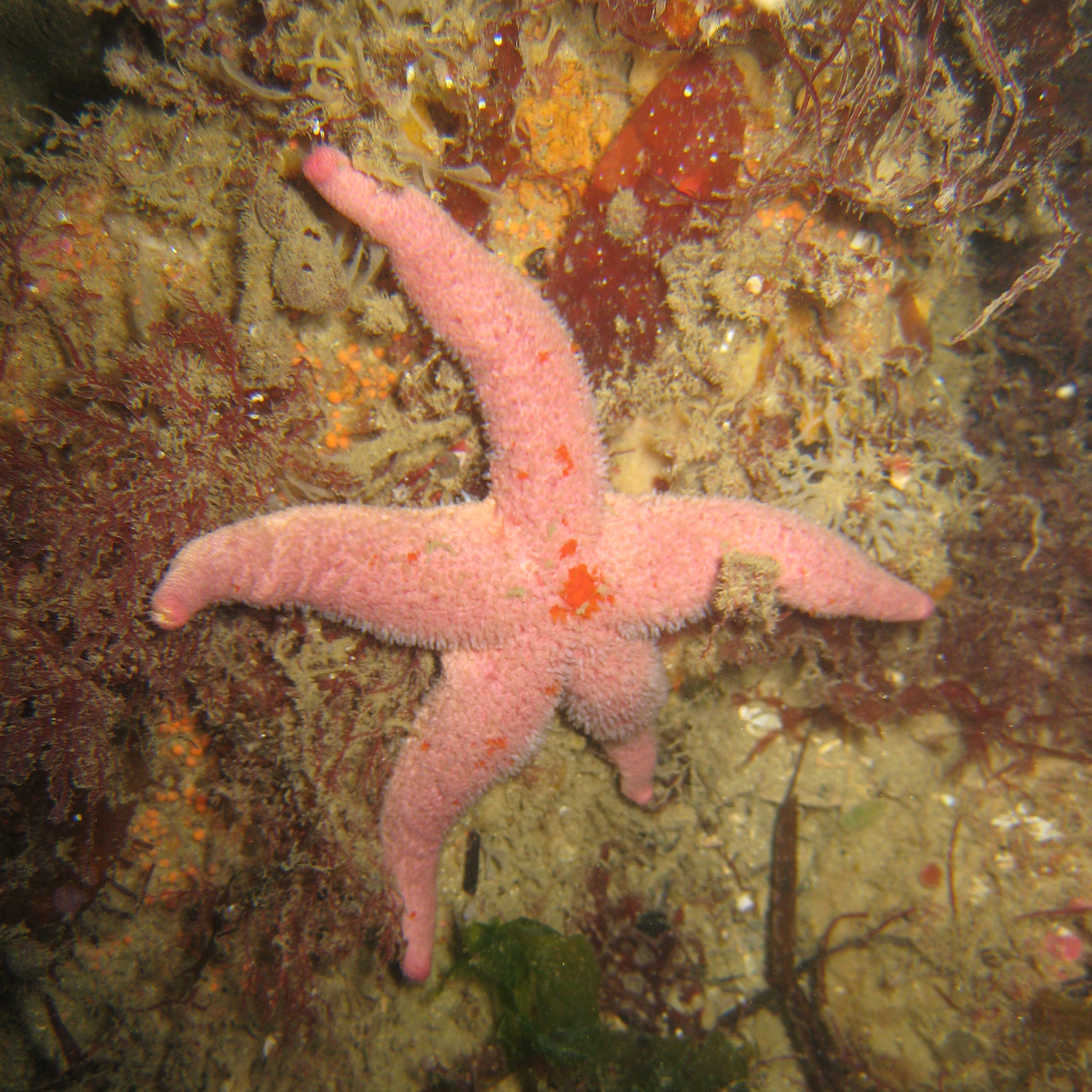 Henricia sanguinolenta in Carantec.